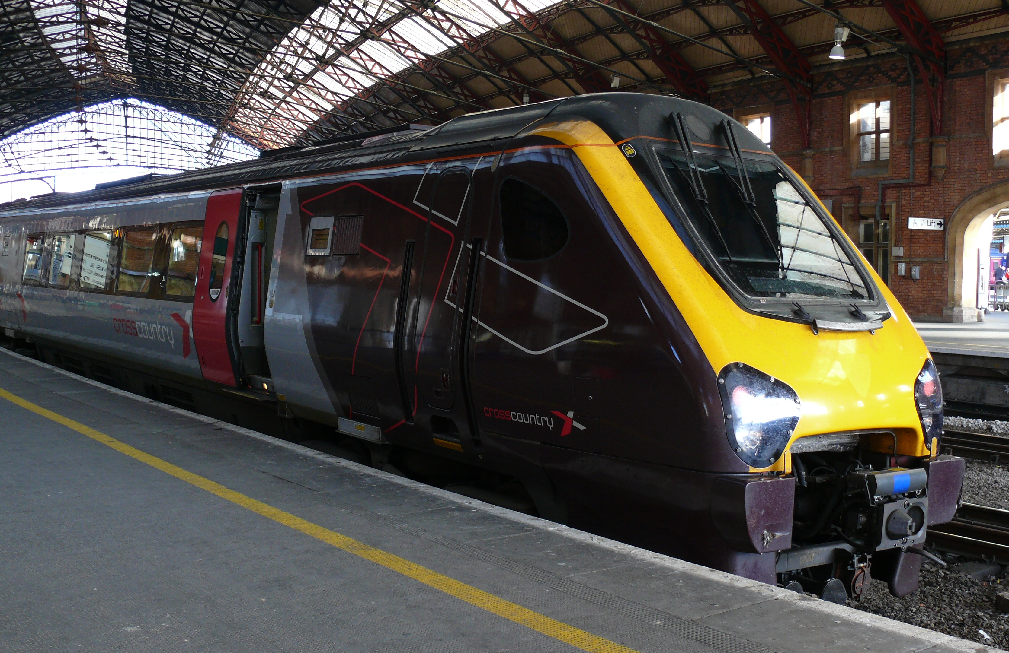 CrossCountryBombardier Voyager family train in Bristol Temple Meads.